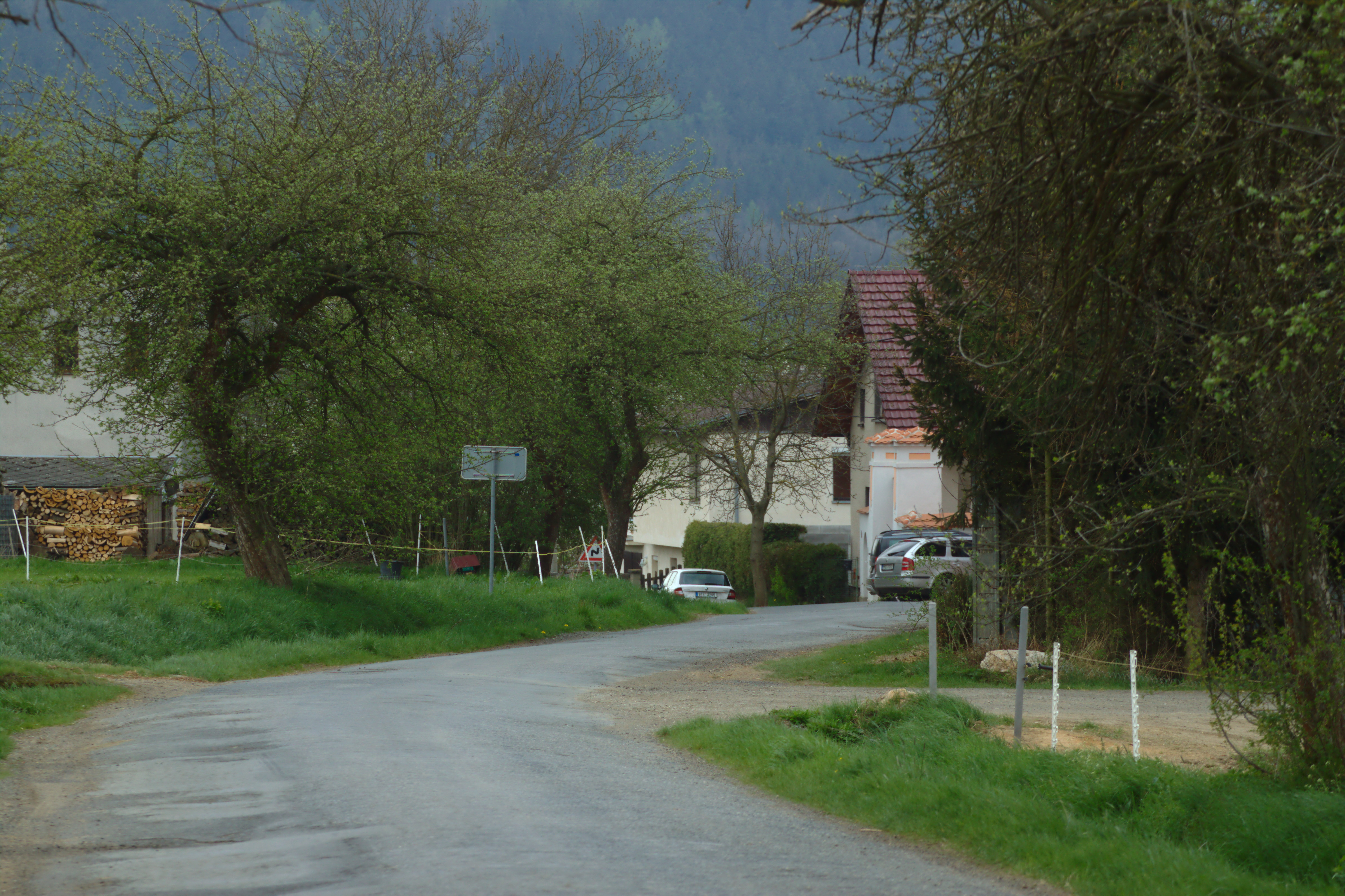 Petrovice village limit, CZ